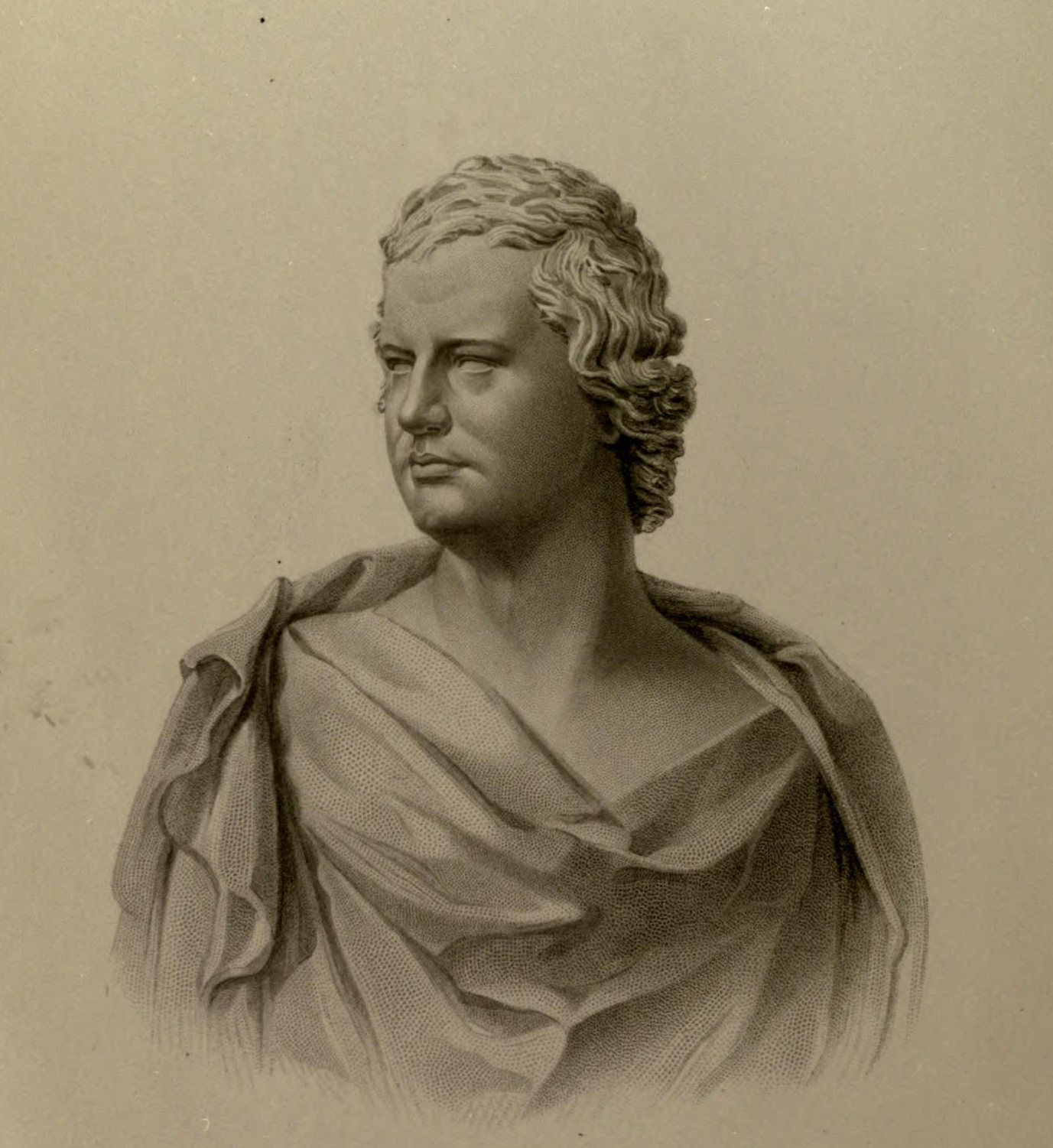 Scottish Author William E. Aytoun